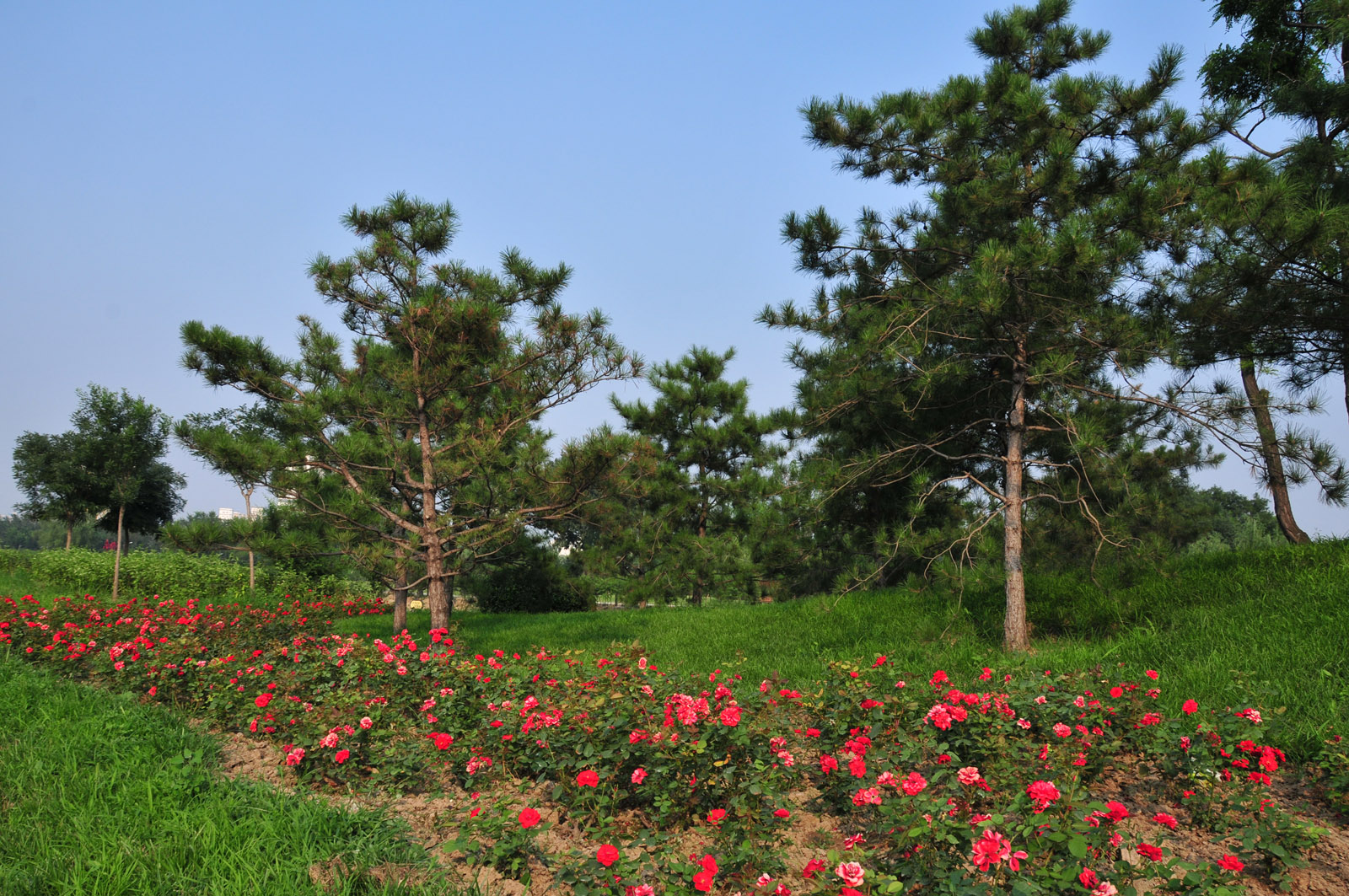 The Chaoyang Park in Beijing